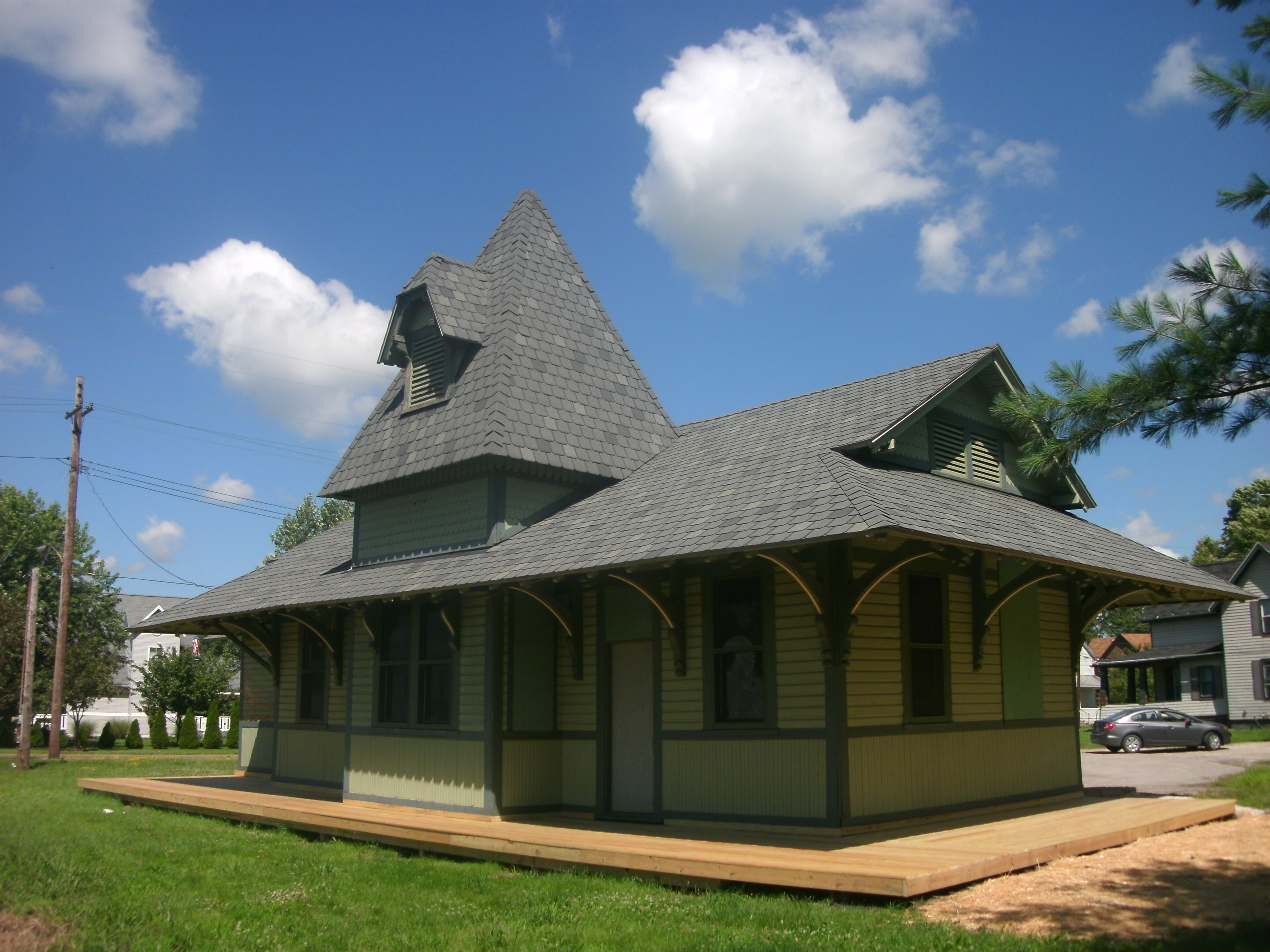 The former Erie Railroad Barberton depot in July 2013.